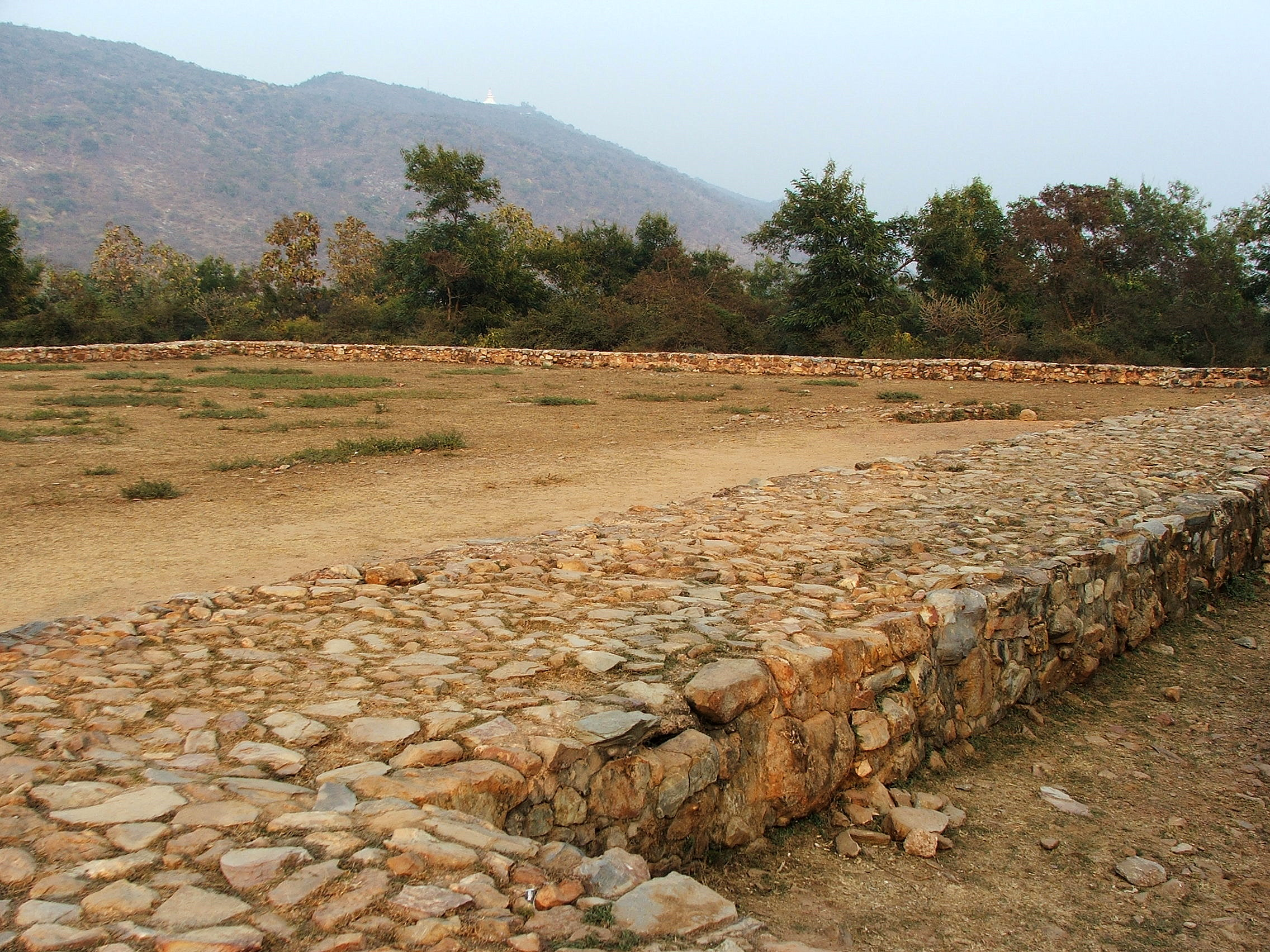 Remains of what has been identified as Bimbisara's Jail, at Rajgir, Bihar, India. This is suspected of being the place where Prince Ajatasatru jailed his father King Bimbisara, and starved him to death. Devadatta told him to do so and he acted on it. Some jail equipment was found at the site, and the Grijjakuta hill (Vulture Peak) can be seen from the site.